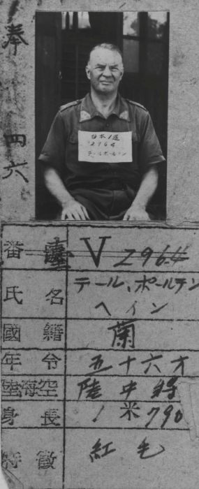 Lieutenant General H. Ter Poorten, commander of the KNIL army, in Japanese captivity